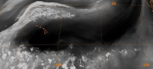 Water vapor imagery depiction of the subtropical ridge National Climatic Data Center's GIBBS satellite archive ftp://eclipse.ncdc.noaa.gov/pub/isccp/b1/.D2790P/images/2000/258/Img-2000-09-14-12-GOE-10-WV.jpg